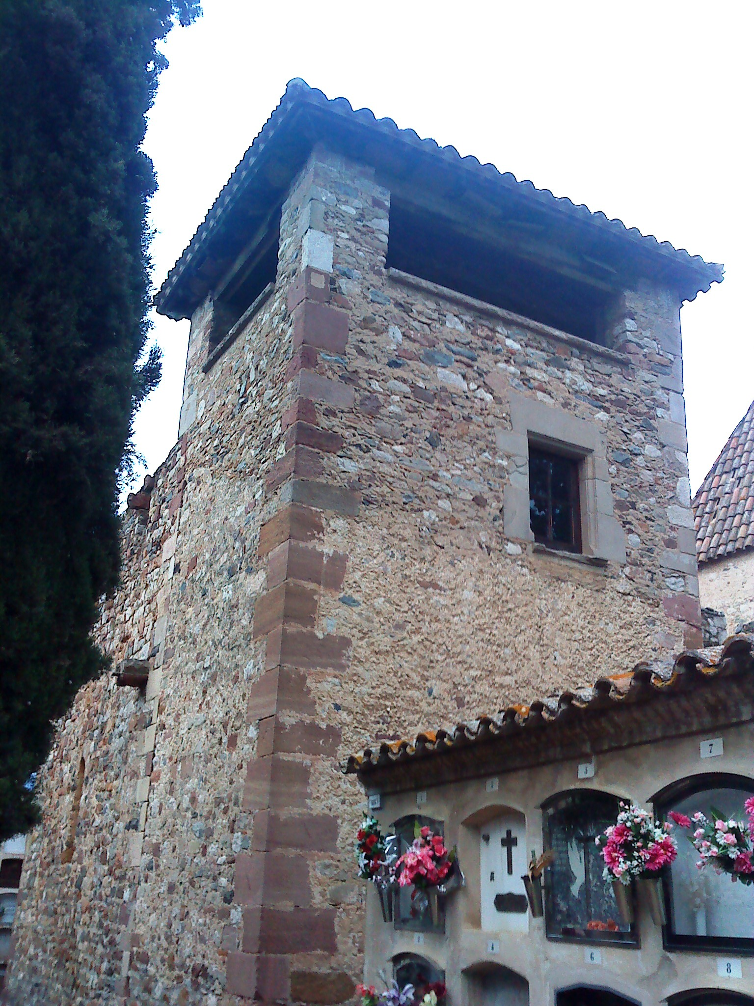 Romanesque Church "La Doma" at La Garriga, Catalunya, The Comunidor